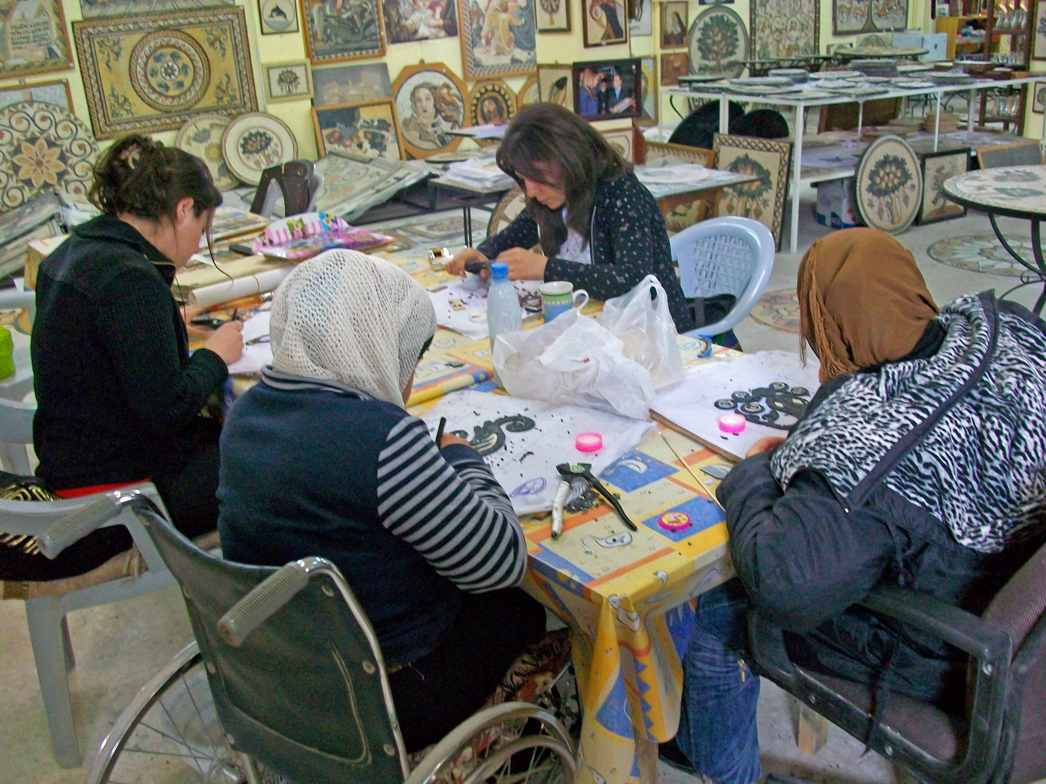 Women doing beadwork, creating mosaics, through a goverment-sponsored program, in Jordan